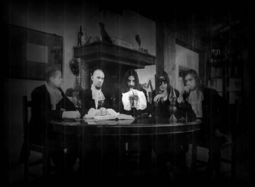 Hortus Animae lineup : Amon, Martyr L, Grom, Bless, Hypnos